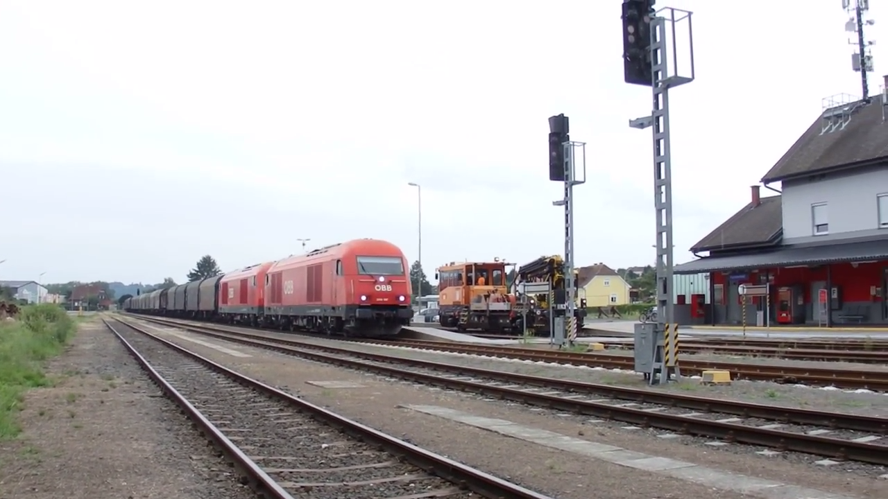 ÖBB 2016 Doppeltraktion mit einem Güterzug auf der Thermenbahn im Bahnhof Fürstenfeld. Im Hintergrund ist eine ÖBB X630 zu sehen.